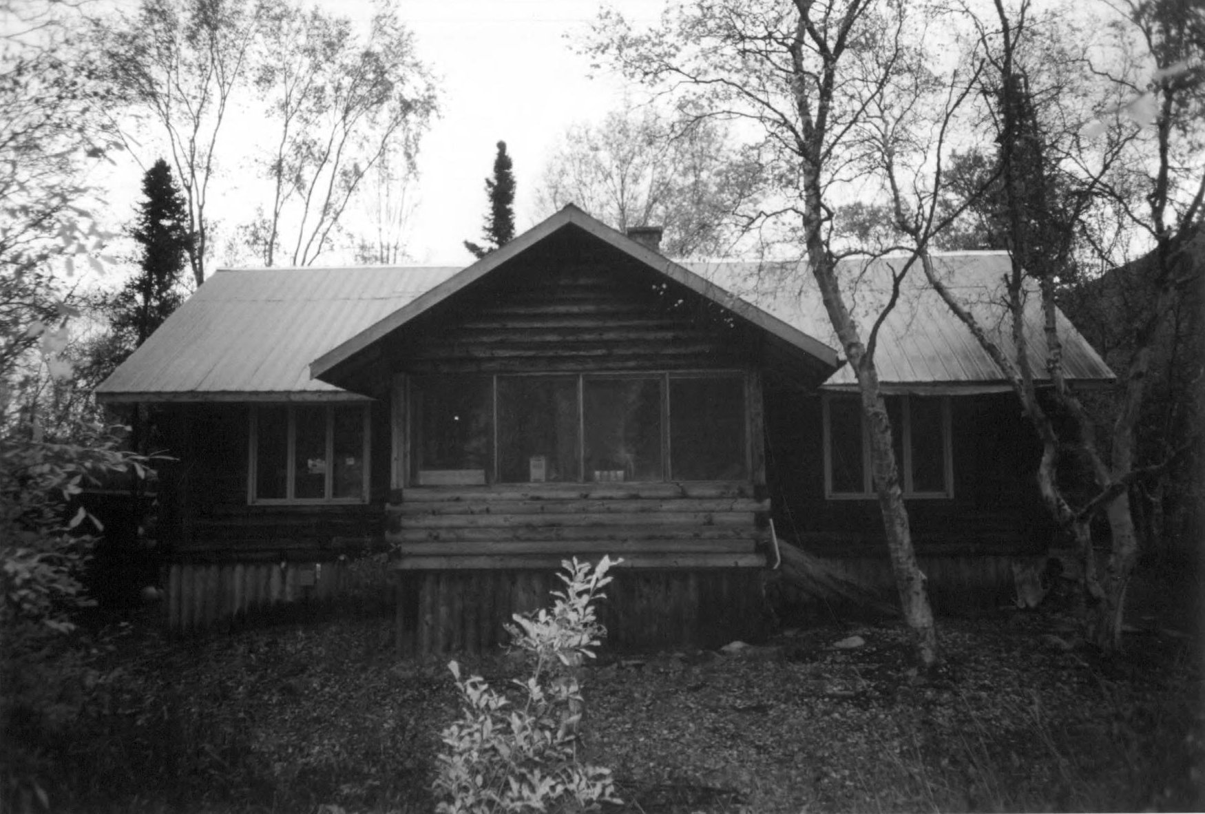 The Dr. Elmer Bly House, now the headquarters of the Lake Clark National Park and Preserve, Port Alsworth, Alaska.